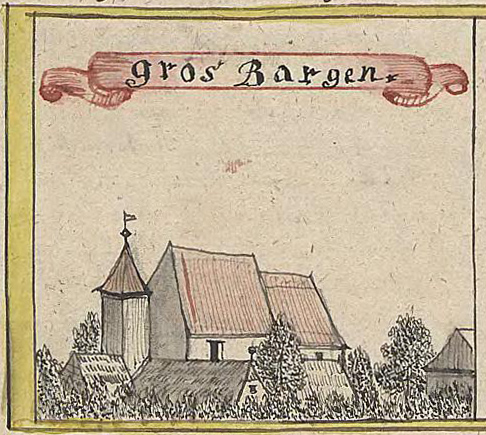 Church of Barkowo.